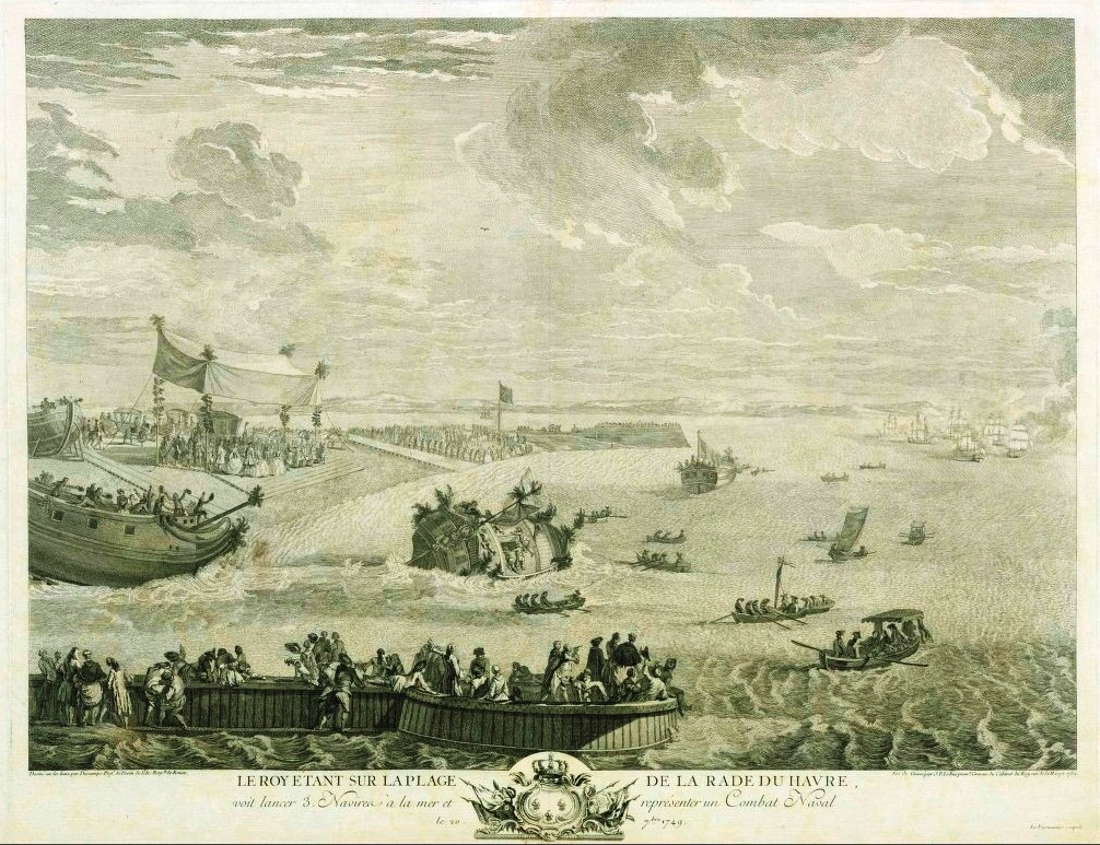 Engraving to illustrate the visit of Louis XV in Le Havre in 1749. This is the first and last time when the king saw the sea during his reign.